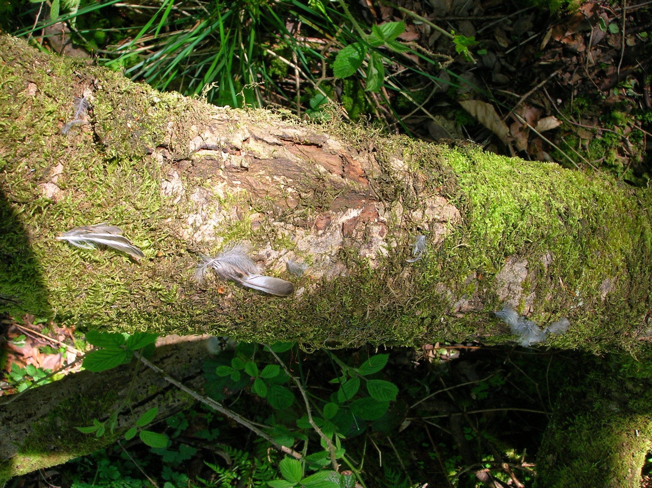 A plucking post on a tree trunk in Lynn Glen, Dalry, Scotland